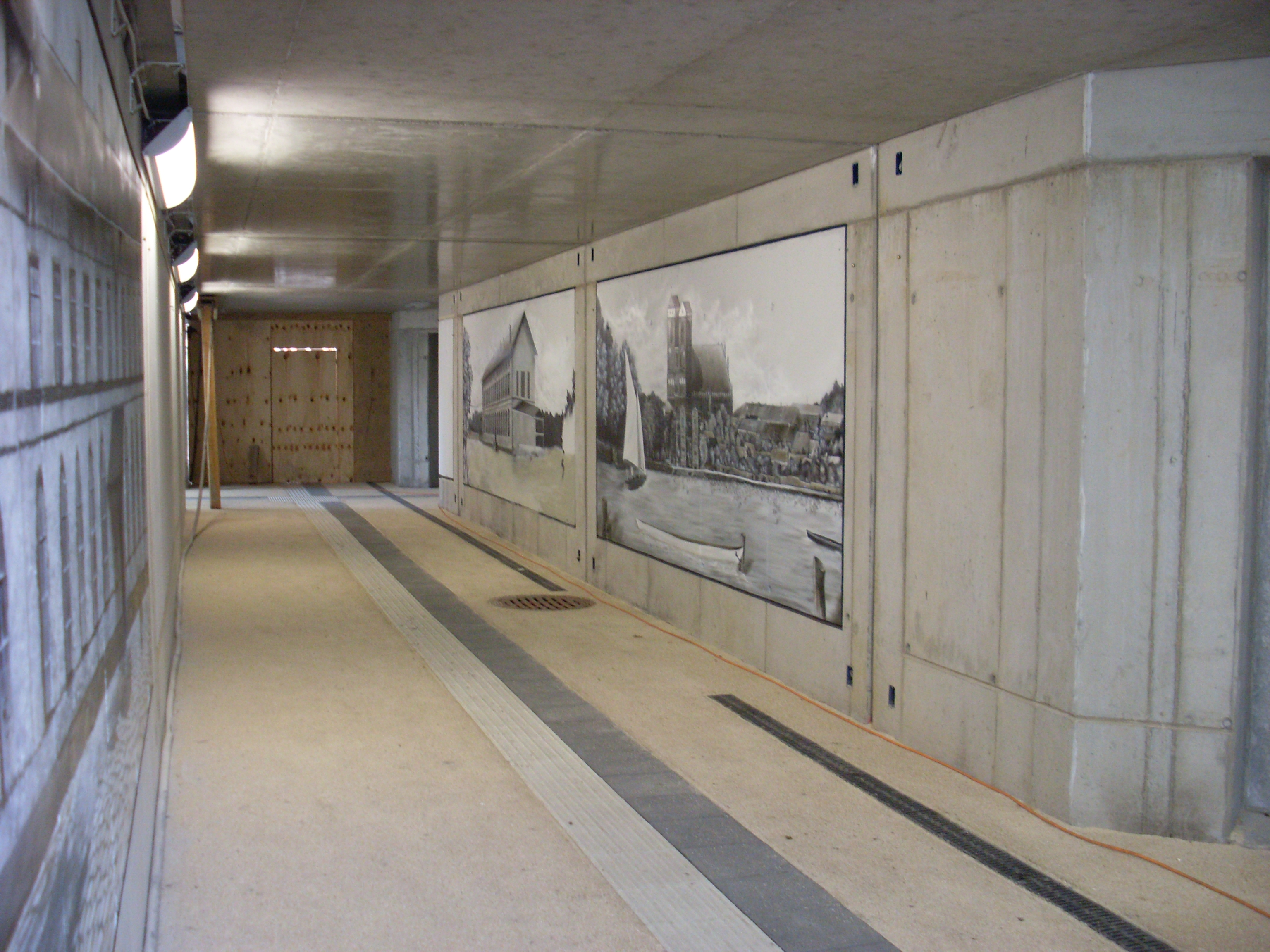 pedestrian tunnel station Prenzlau